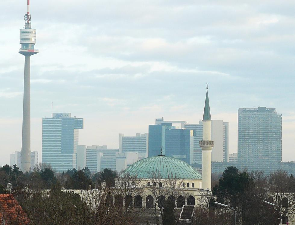 Austria, Vienna, Vienna International Centre